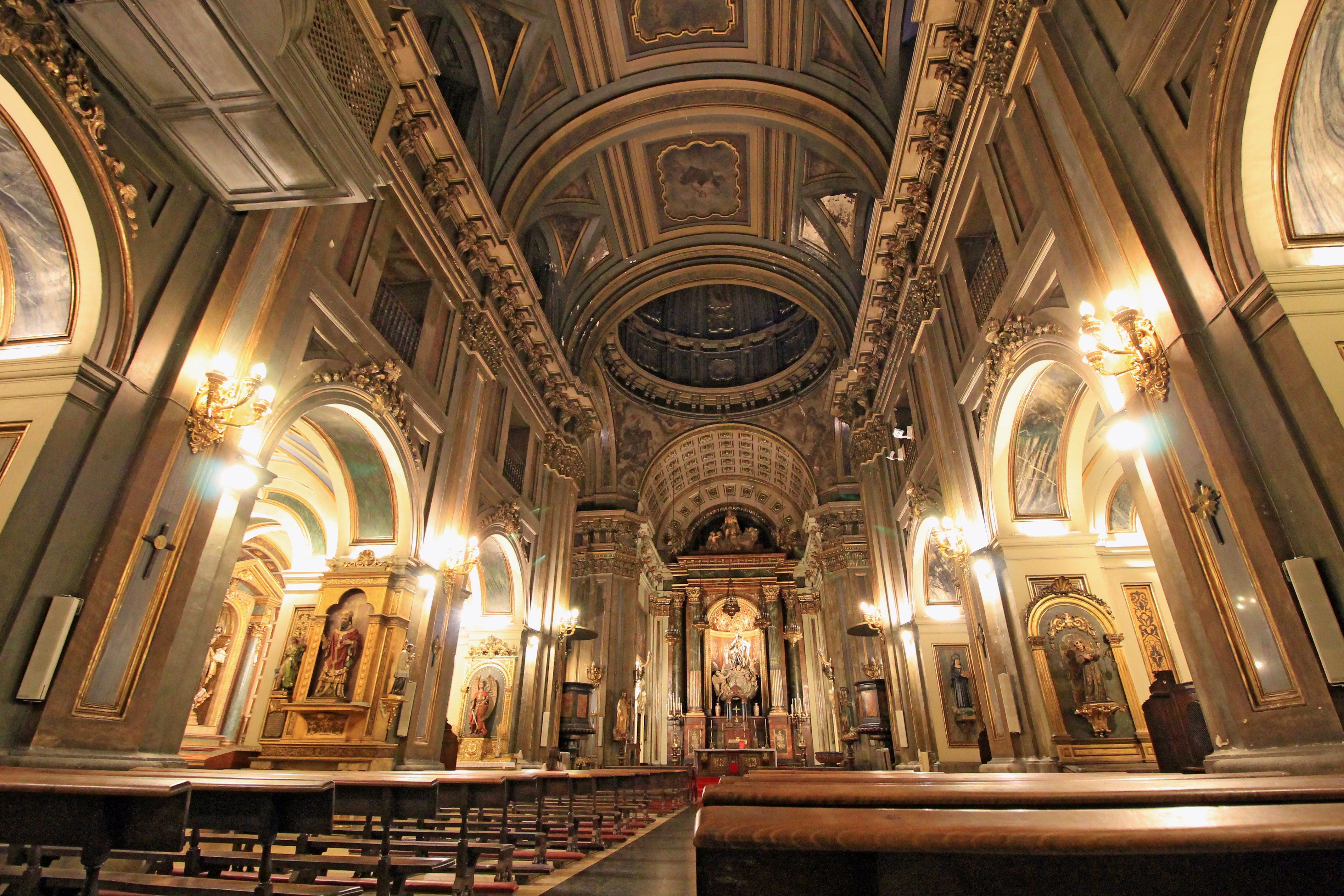 Interior of St. Joseph's Church in Madrid (Spain).